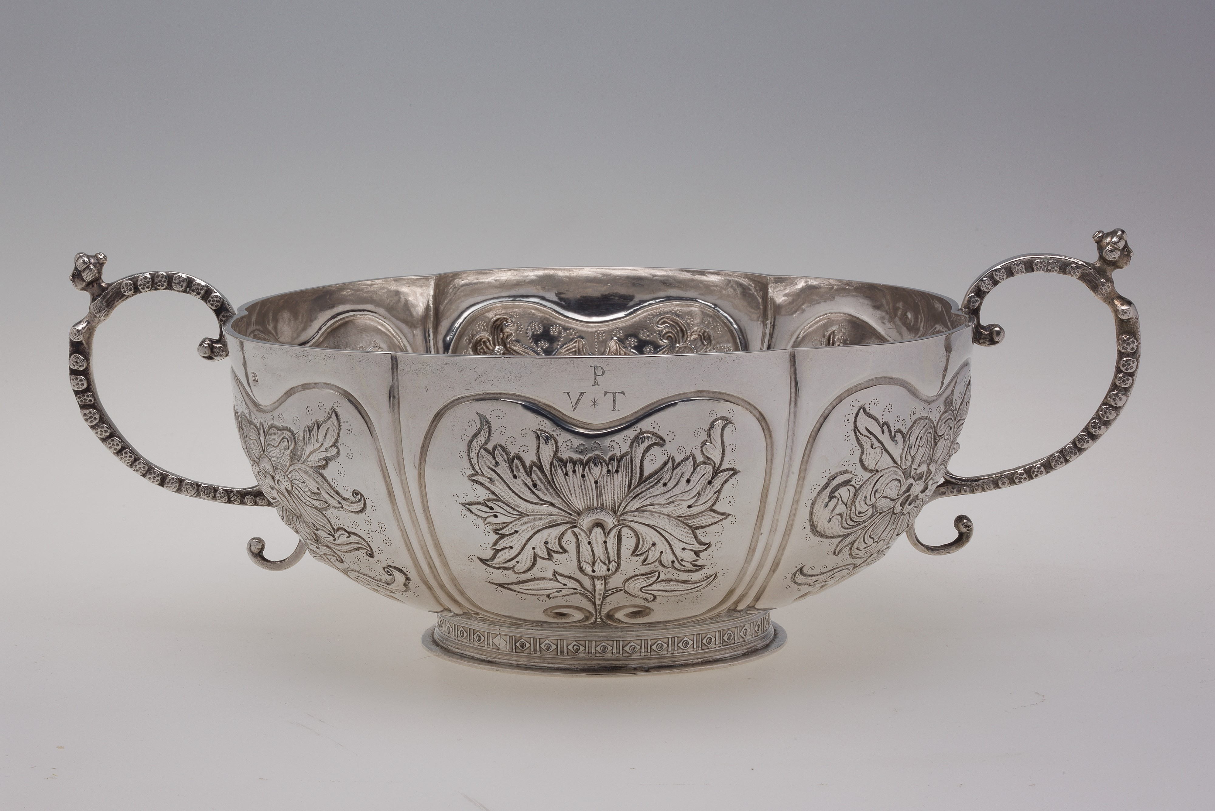 American; Bowl; Silver